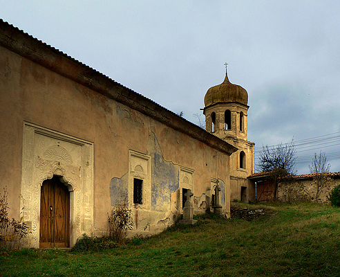 The church "Saint Nikolay" in Golema Rakovitsa village, Bulgaria